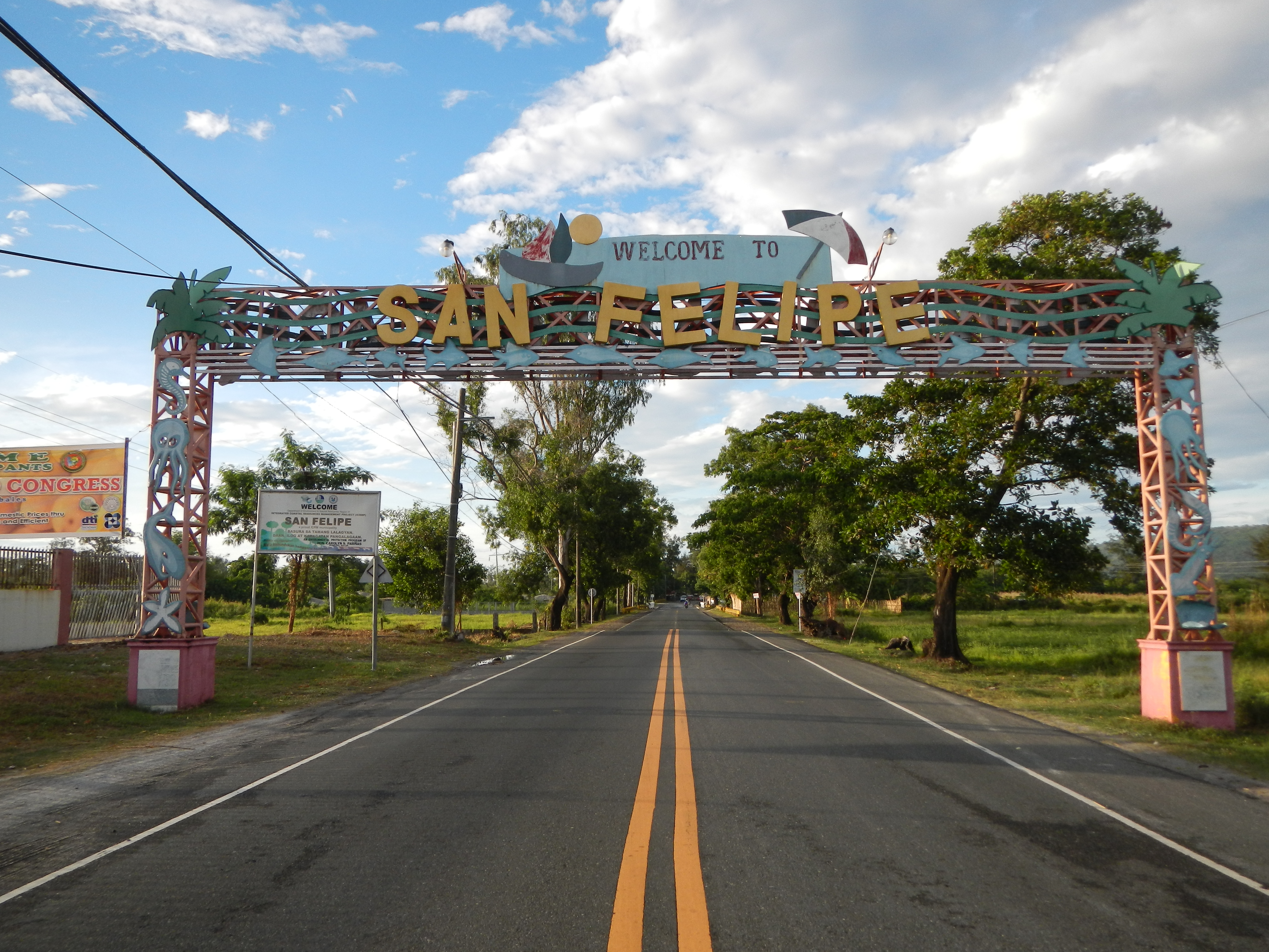 San Felipe, Zambales[1] is a 4th class municipality in the province of Zambales, Philippines. According to the 2007 Philippine census, it has a population of 21,322 people in 4,094 households. The town was a victim of the Mount Pinatubo Eruption being buried in about a meter in volcanic ash but damage was comparatively light. [2]Atty. Carolyn S. Fariñas (Mayor) Coordinates: 15°4'19"N 120°7'37"E[3] [4] Land Area: 111.60 km² ZIP Code: 2204